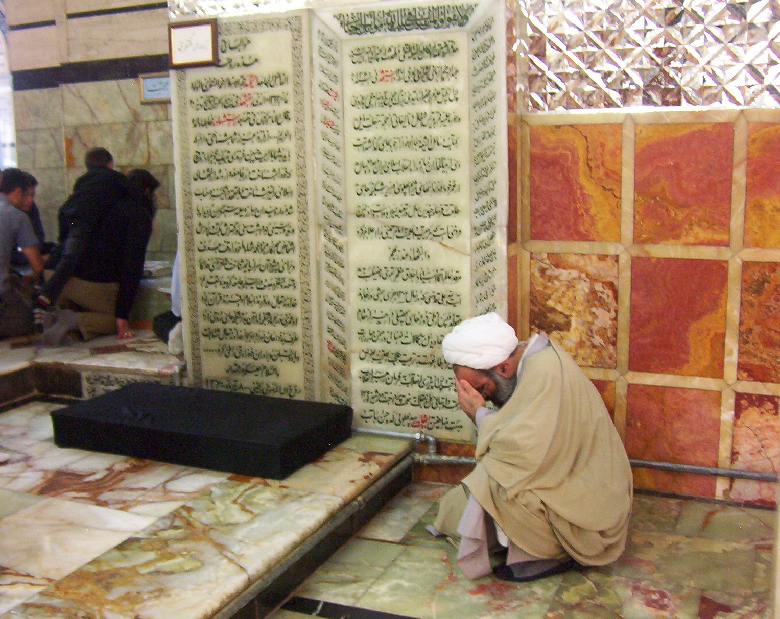 tomb of Hussein Ali Montazeri